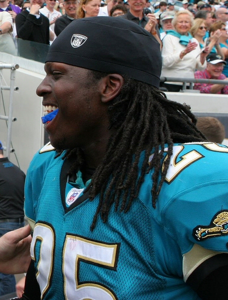 Reggie Nelson, safety for the Jacksonville Jaguars